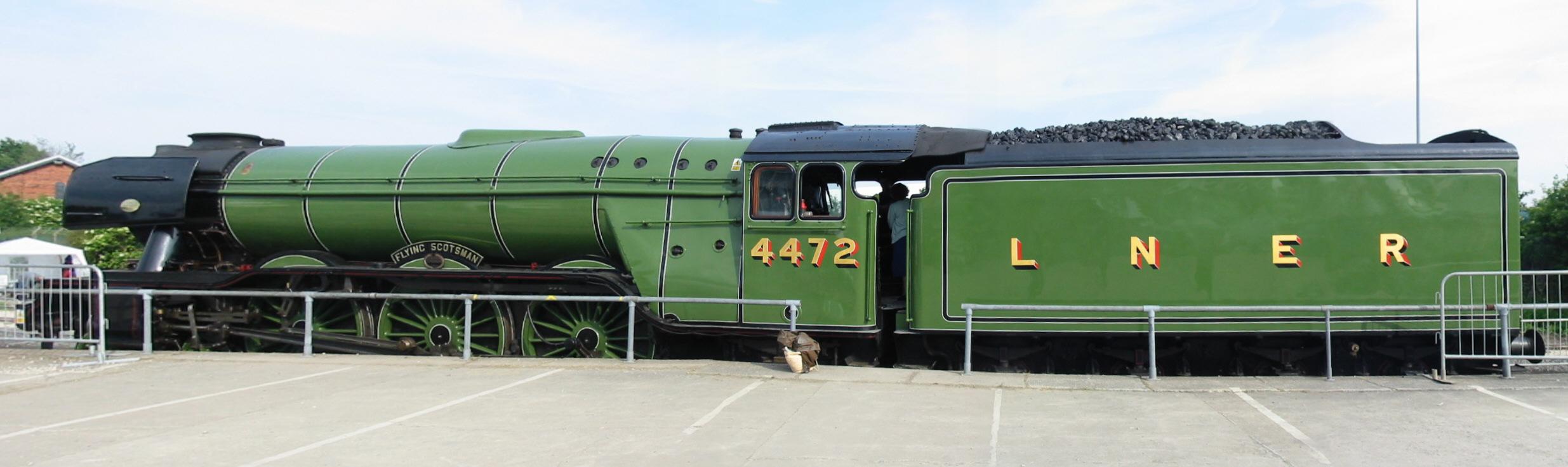 A merged view of the Flying Scotsman A3 Pacific locomotive number 4472, photgraphed at the Rail200 Railfest at the National Railway Museum in York, 2 June 2004